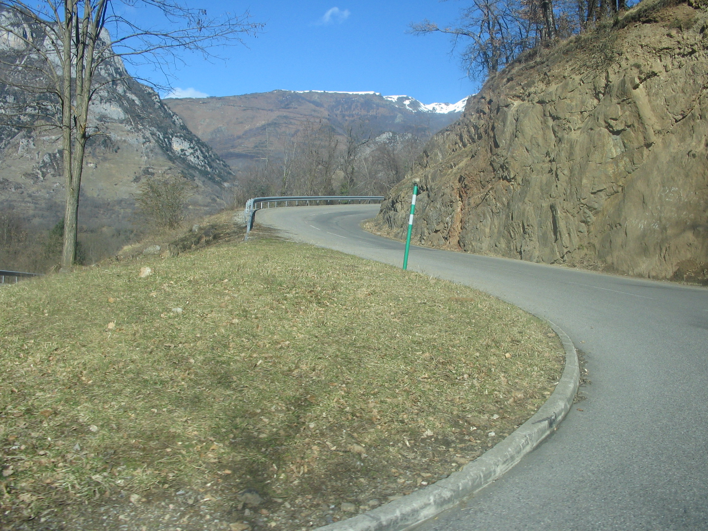 The Plateau de Beille climb.